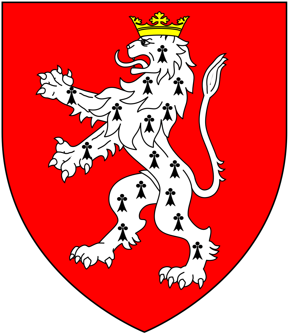 Arms of Hamlyn family of Widecombe, Buckfastleigh and Clovelly all in Devon, and Hamlyn Baronets (later Hamlyn-Williams Baronets): Gules, a lion rampant ermine crowned or